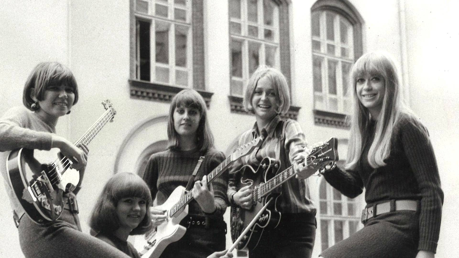 Photograph of the Swedish musical group Nursery Rhymes visiting Helsinki: Gunilla Karlow (left), Birgitta Nordgren, Inger Jonsson, Noni Tellbrandt and Marie Selander.